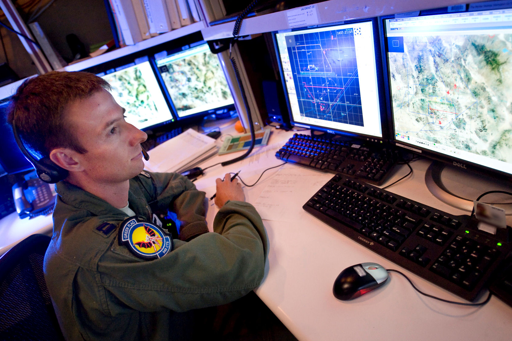 NELLIS AIR FORCE BASE, Nev.-- Capt. Andy Labrum, close air support instructor, 549th Combat Training Squadron observes aircraft movement and communications between joint terminal attack controllers and pilots during Green Flag West 10-9 exercise held at the National Training Center in Fort Irwin, Calif. Green Flag-West provides a realistic air-land integration training environment for joint forces preparing to support worldwide combat operations. (U.S. Air Force Photo by Lawrence Crespo)